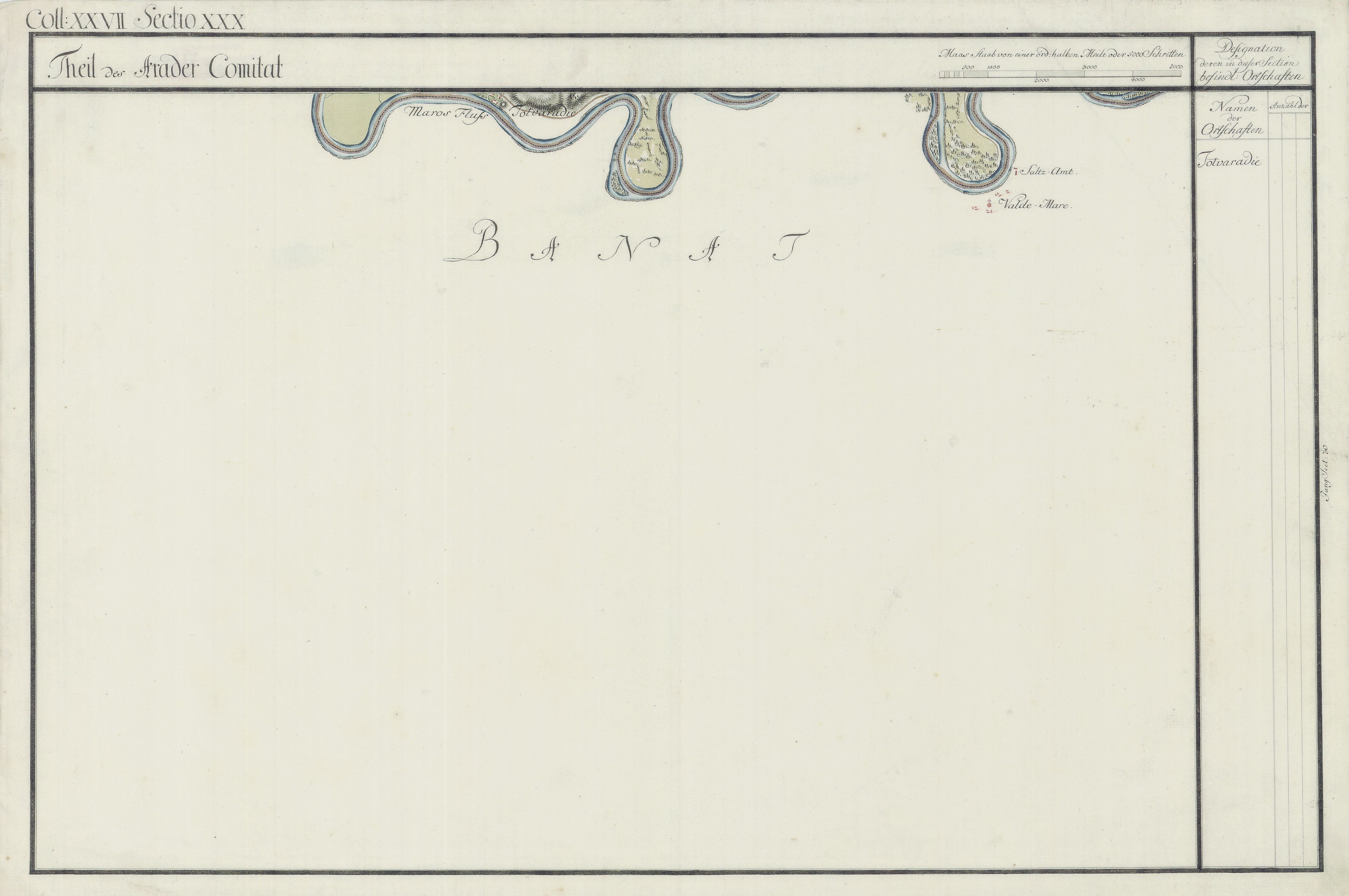 Arad County, 1782-85. Josephinische Landesaufnahme pg.27-30